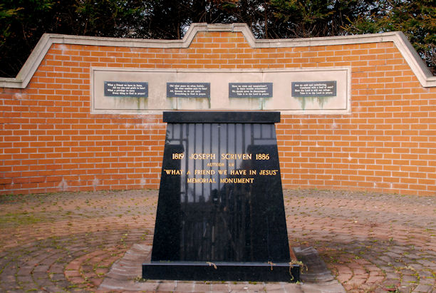 Joseph Scriven memorial, Banbridge Joseph Scriven who wrote the hymn “What a friend we have in Jesus” was born at Ballymoney Lodge off the Dromore Road (the house used to have blue plaque). This memorial is at Downshire Place.